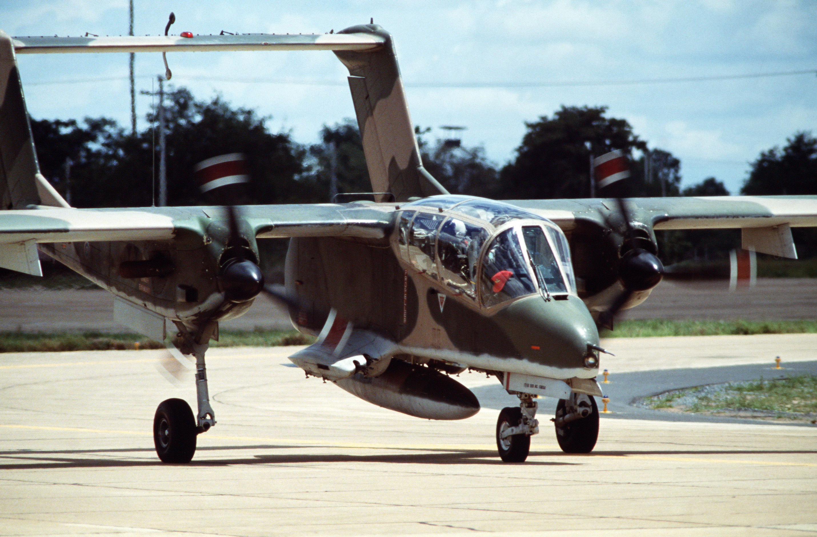 A Royal Thai Air Force North American OV-10C Bronco aircraft taxis on the runway before takeoff during exercise "Cobra Gold '87" at Korat Royal Thai Air Force Base on 23 July 1987.